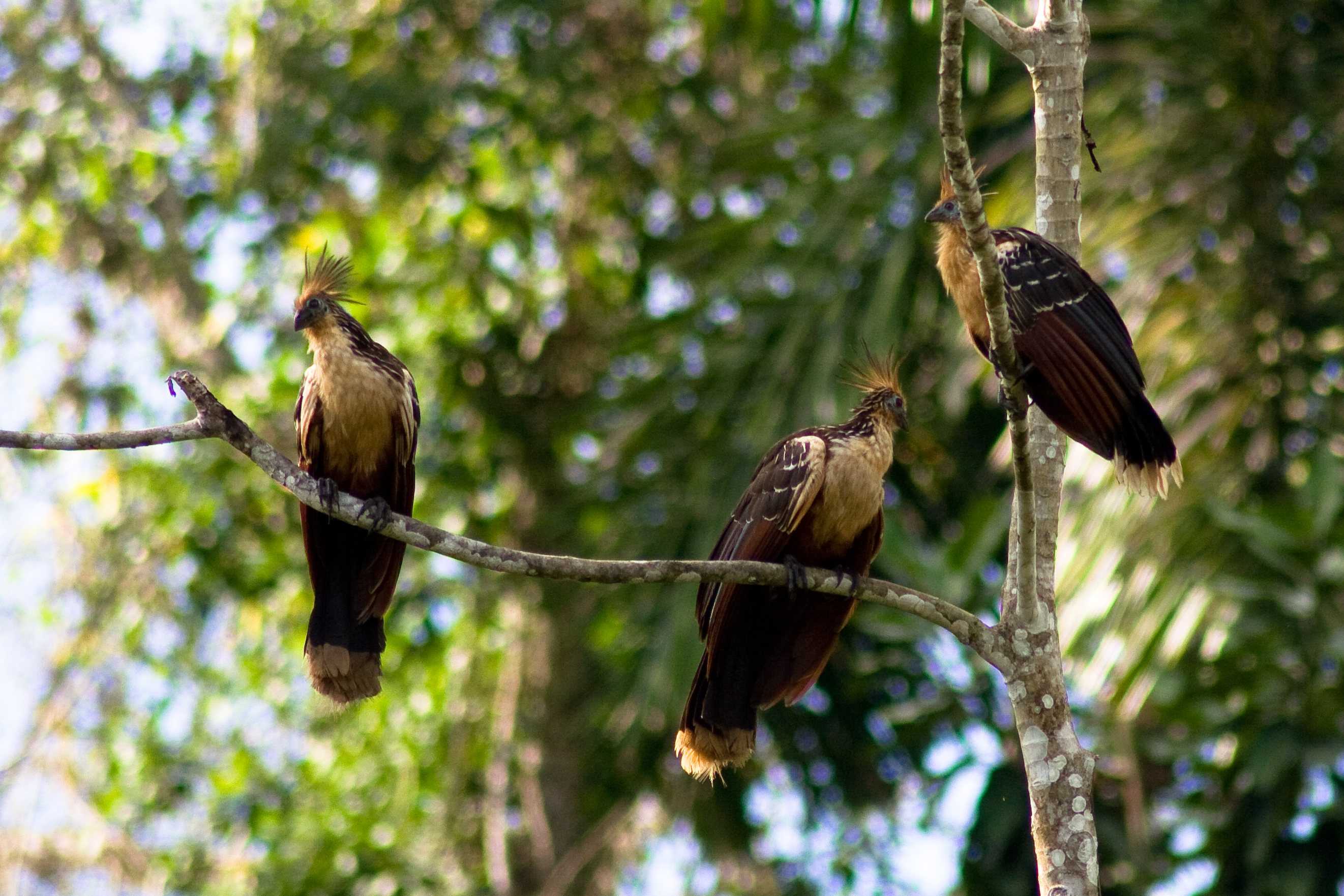 Hoatzin (also known as the Hoactzin and Stinkbird) in Peru.